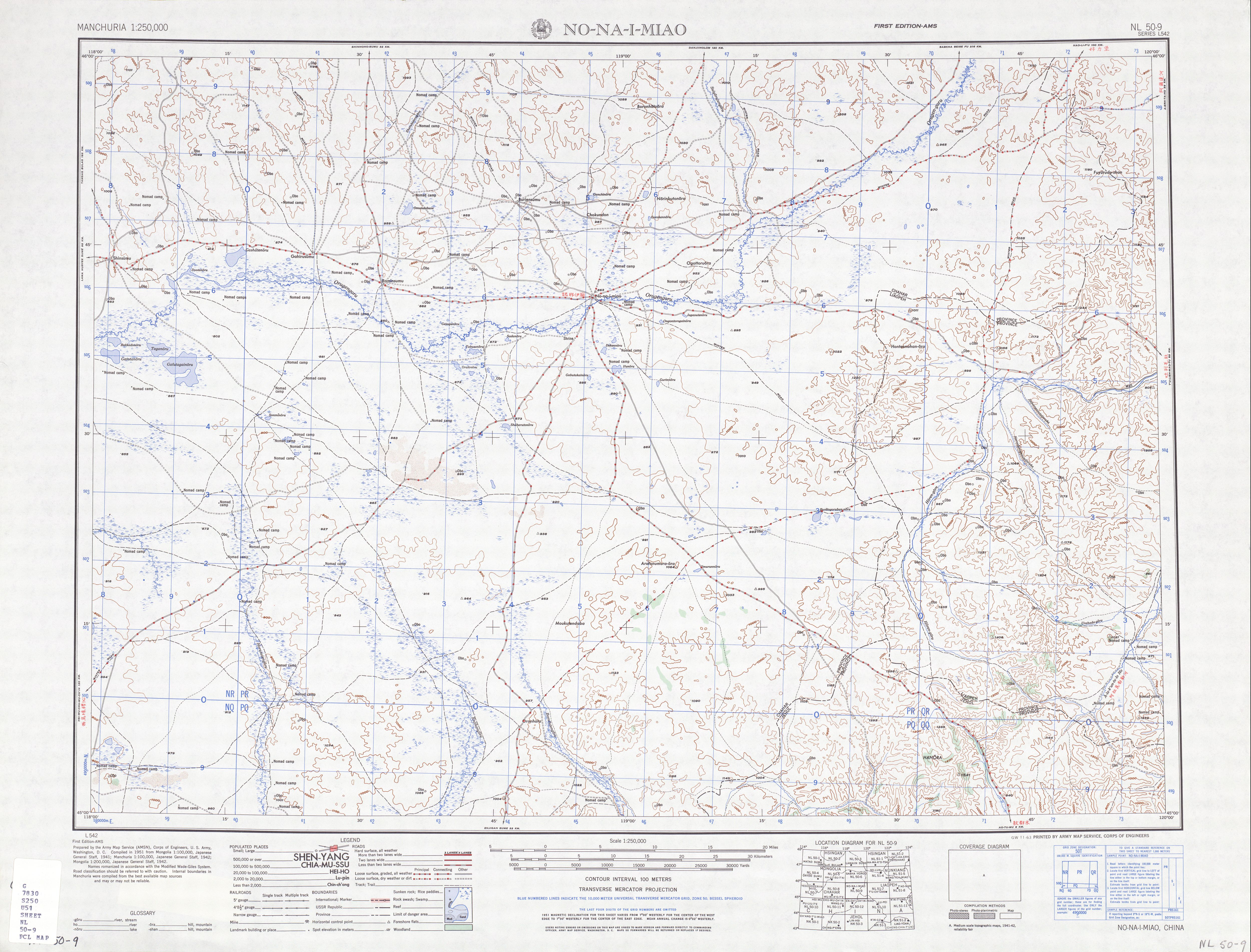 Manchuria AMS Topographic Maps